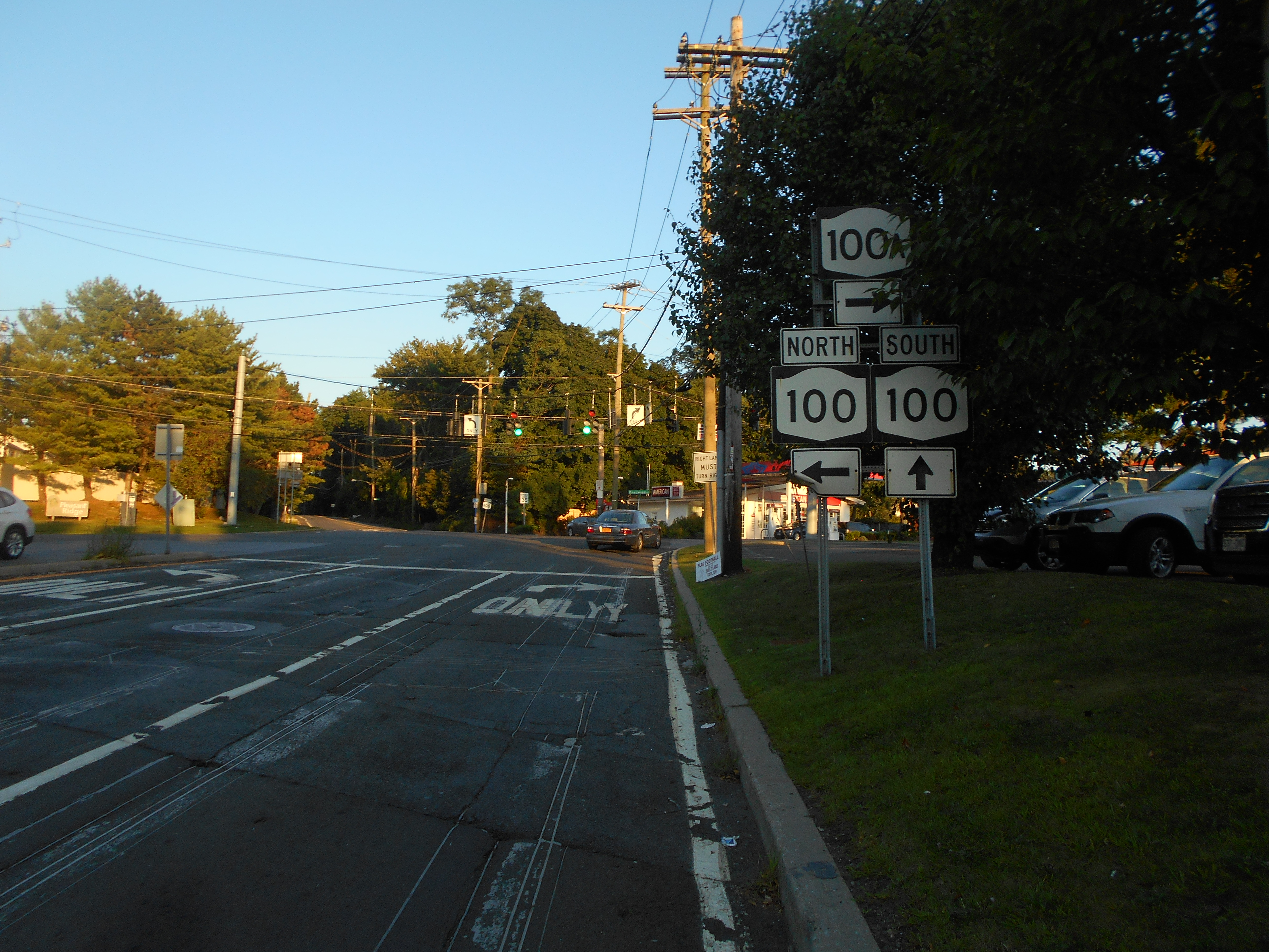 New York State Route 100C approaching New York State Route 100 and New York State Route 100A in Greenburgh, New York.